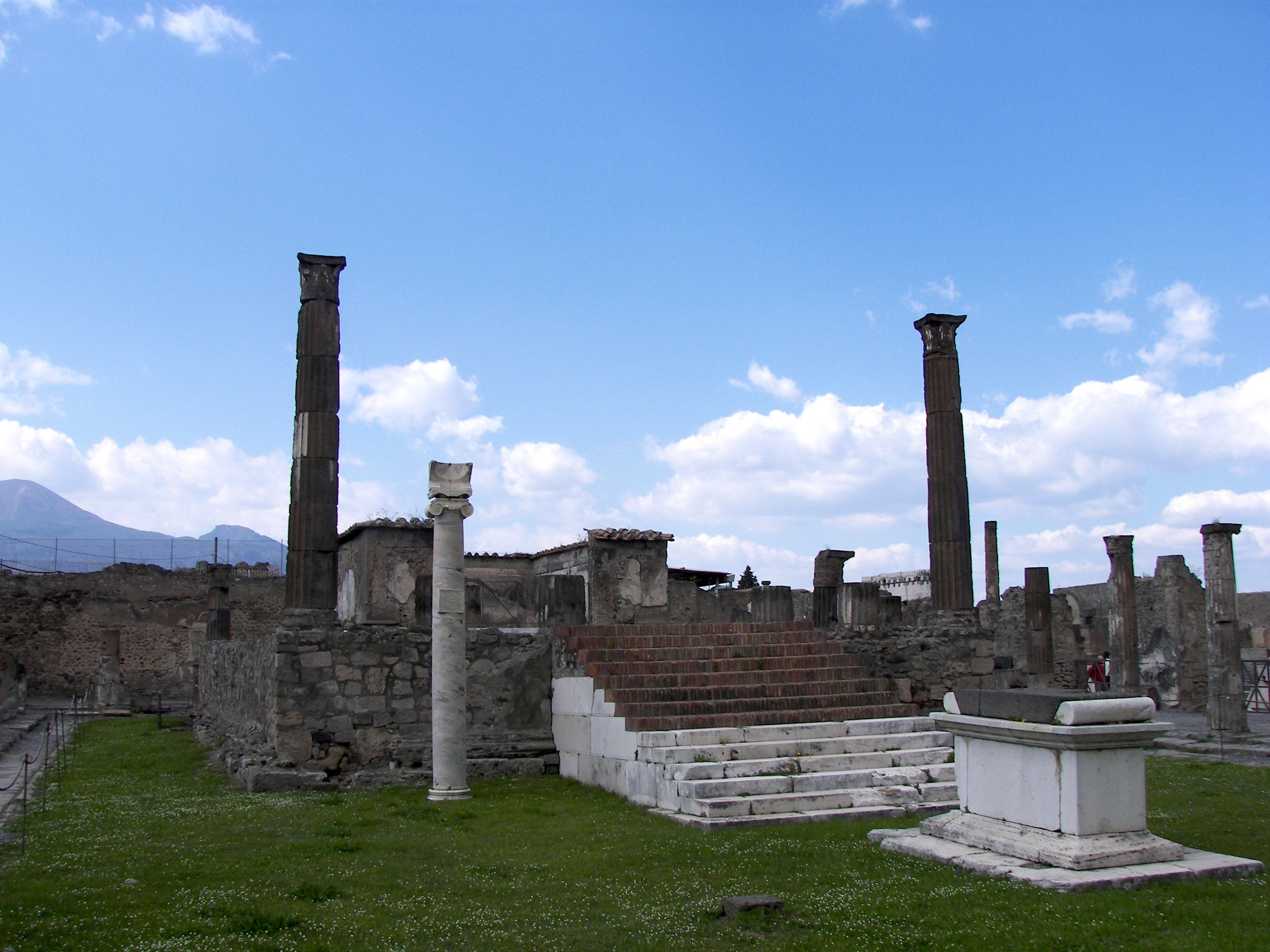 Temple of Apollo in the main forum of Pompeii with Mount Vesuvius to the far left.